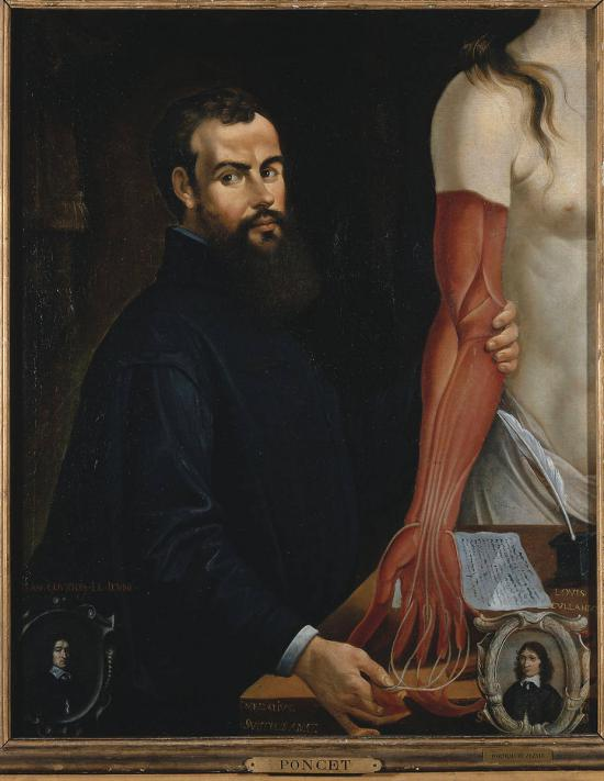 A posthumous portrait of Andreas Vesalius by Pierre Poncet.